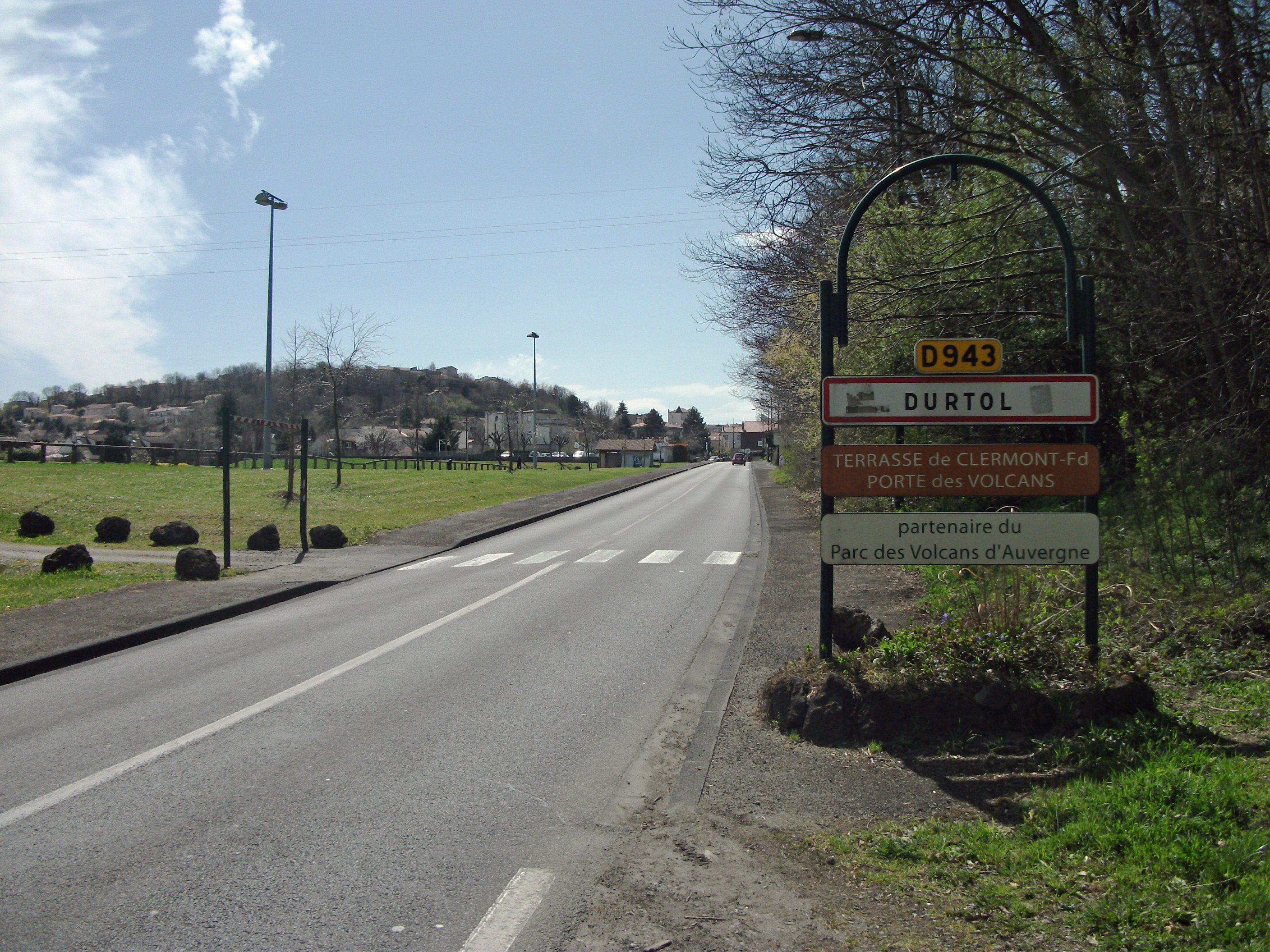 Entrance of Durtol by departmental road 943 from Volvic. Approx. elevation: 505 m/1,657 ft